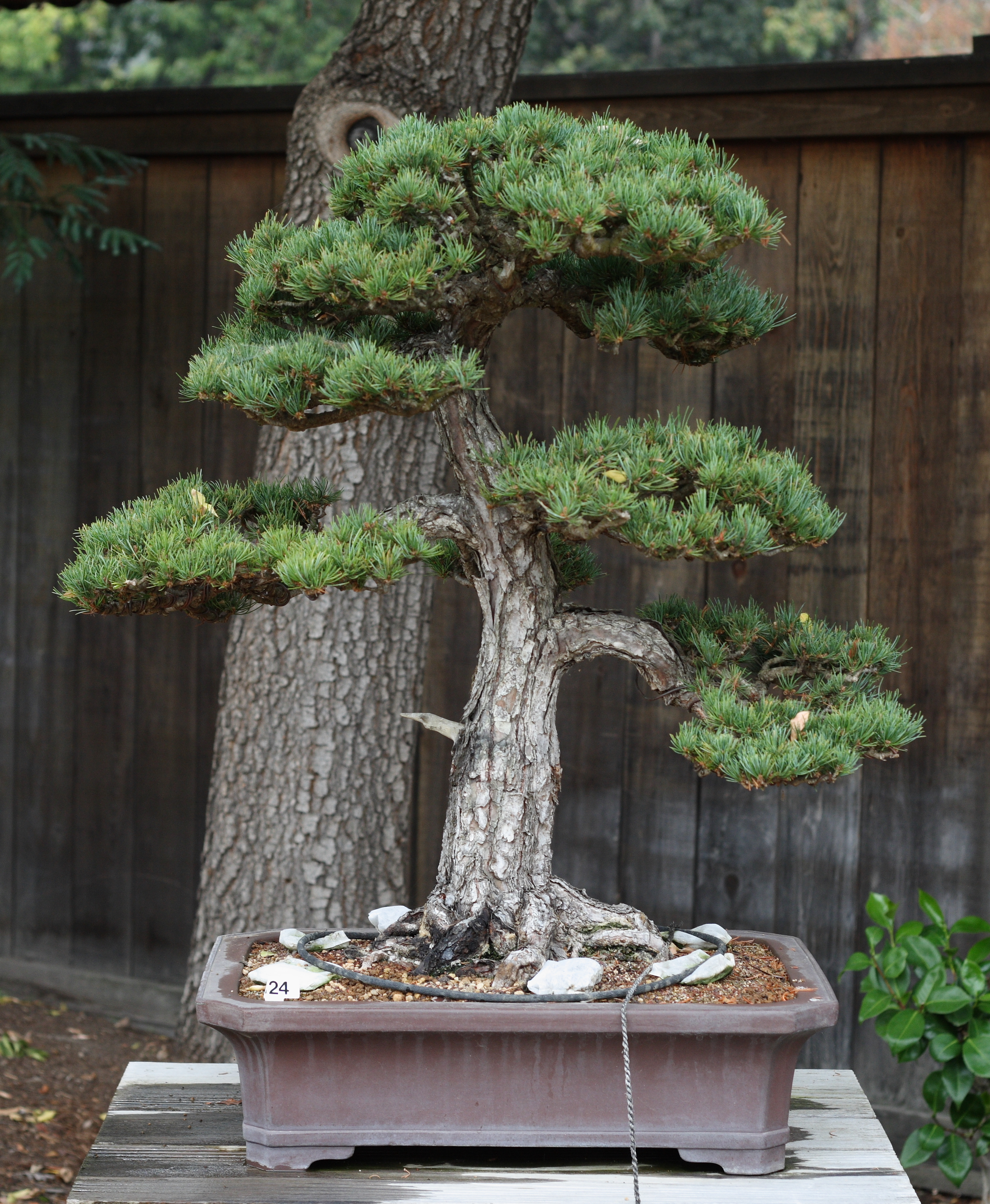 A Japanese White Pine (Pinus parviflora) in the informal upright style, bonsai 124 of the Golden State Bonsai Federation Collection North in Oakland, California (now called the GSBF Bonsai Garden at Lake Merritt). This tree was donated by Hideko Metaxas. It was imported from Shikoku Island, Japan to northern California in 1985. - Google Maps - Google Earth